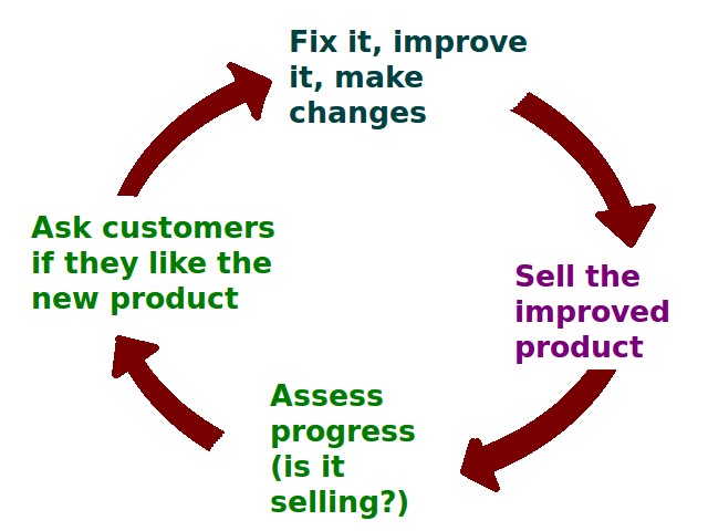 A business ideally is continually seeking feedback from customers: are the products helpful? are their needs being met? Constructive criticism helps marketers adjust offerings to meet customer needs. Source of diagram: here (see public domain declaration at top). Questions: write me at my Wikipedia talk page